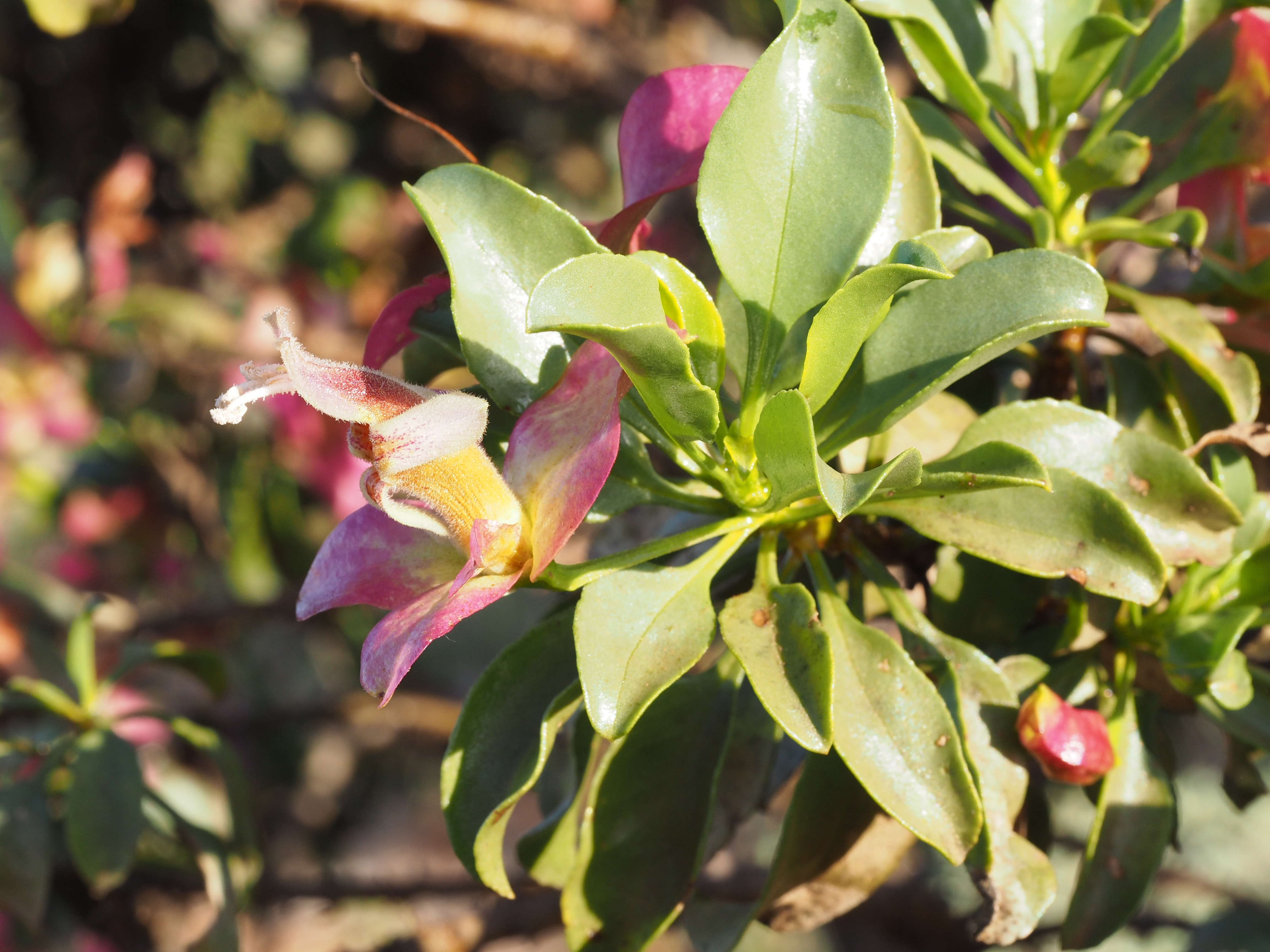 Eremophila fraseri parva growing near the "Bidgemia" turnoff near Gascoyne Junction